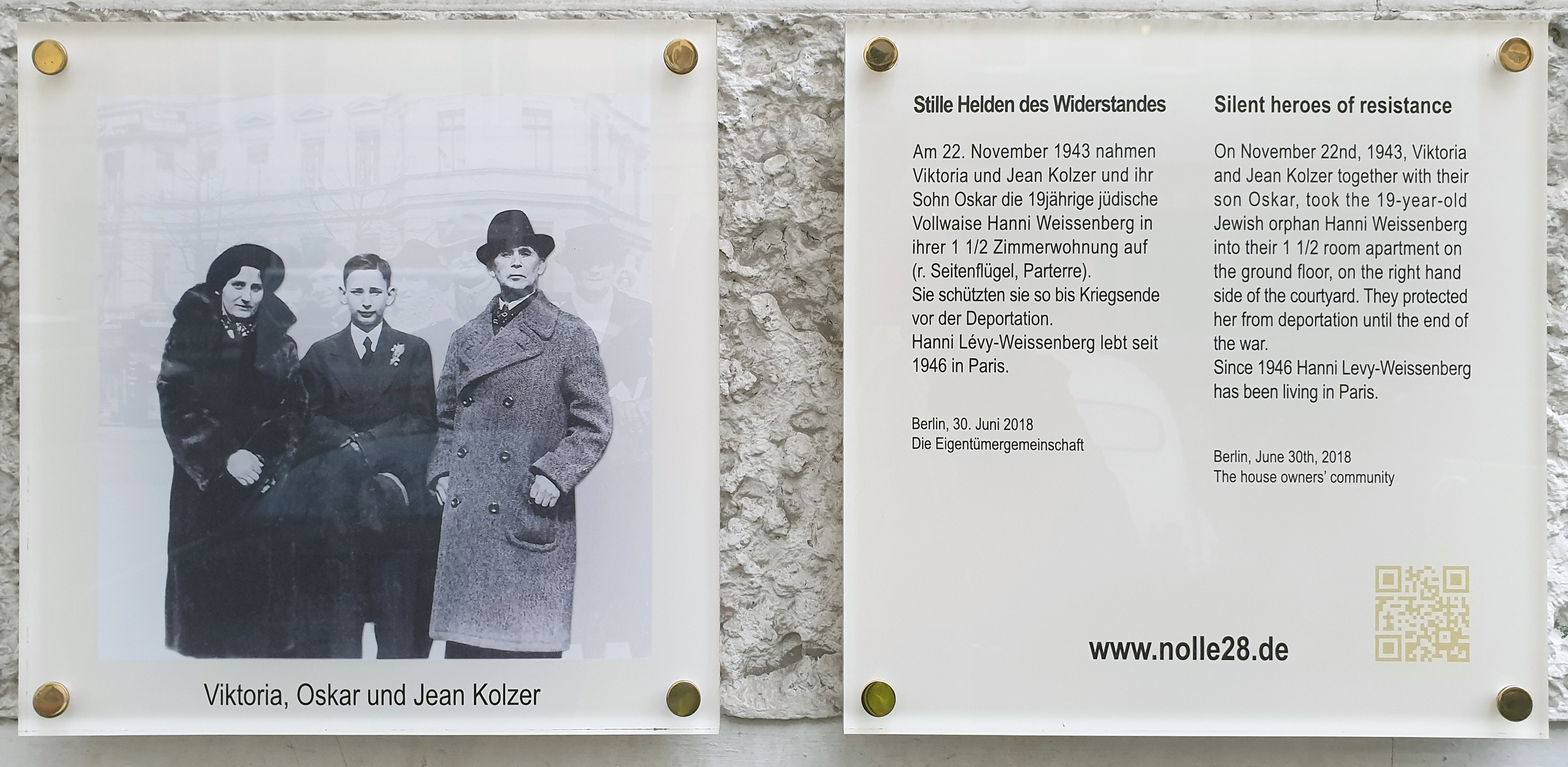 Memorial plaque, Familie Kolzer, Nollendorfstraße 28, Berlin-Schöneberg, Deutschland